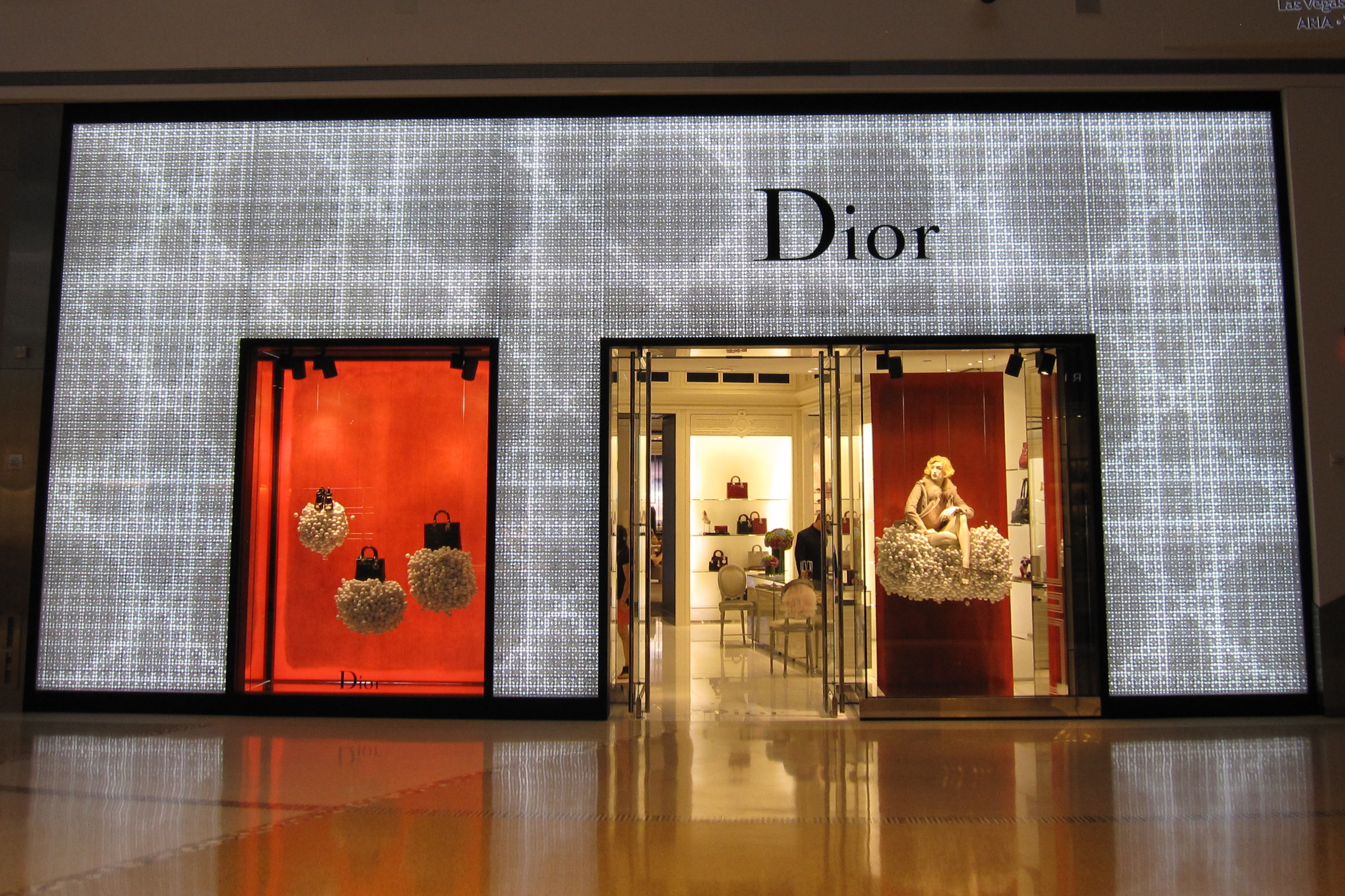 Shop in the The Crystals in Las Vegas